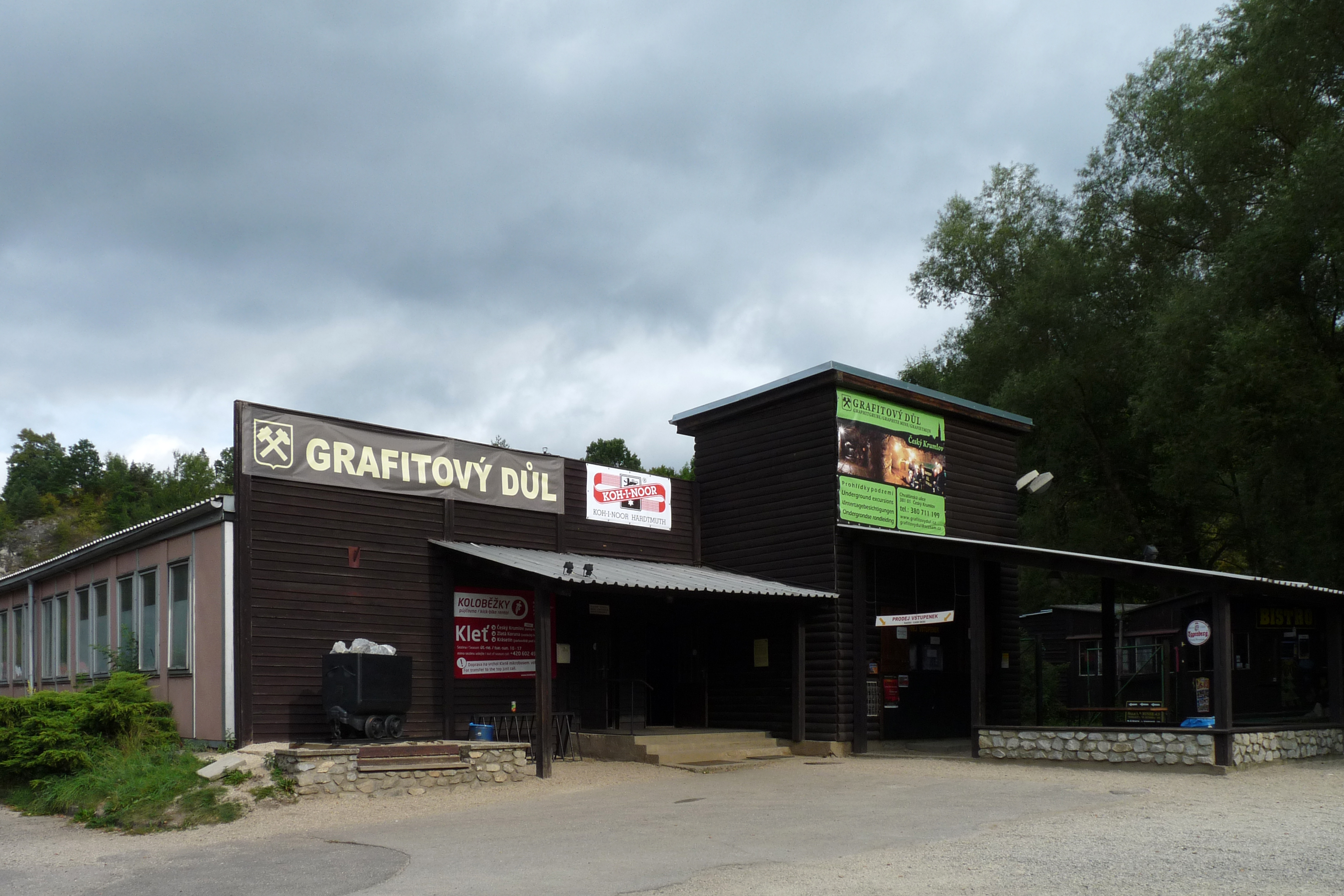 Building of the graphite mine in the town of Český Krumlov, South Bohemian Region, Czech Republic. Česky: Budova grafitového dolu ve městě Český Krumlov v Jihočeský kraj.